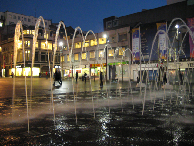 Williamson Square, Liverpool The fountain was opened in November 2004 as part of Liverpool's City Centre Movement Strategy. There are 20 jets of water forming a double arch rising straight out of the paving to a height of about 4 metres. Surrounding the fountain, inlaid into the paving, is a poem by Roger McGough on the theme of water.